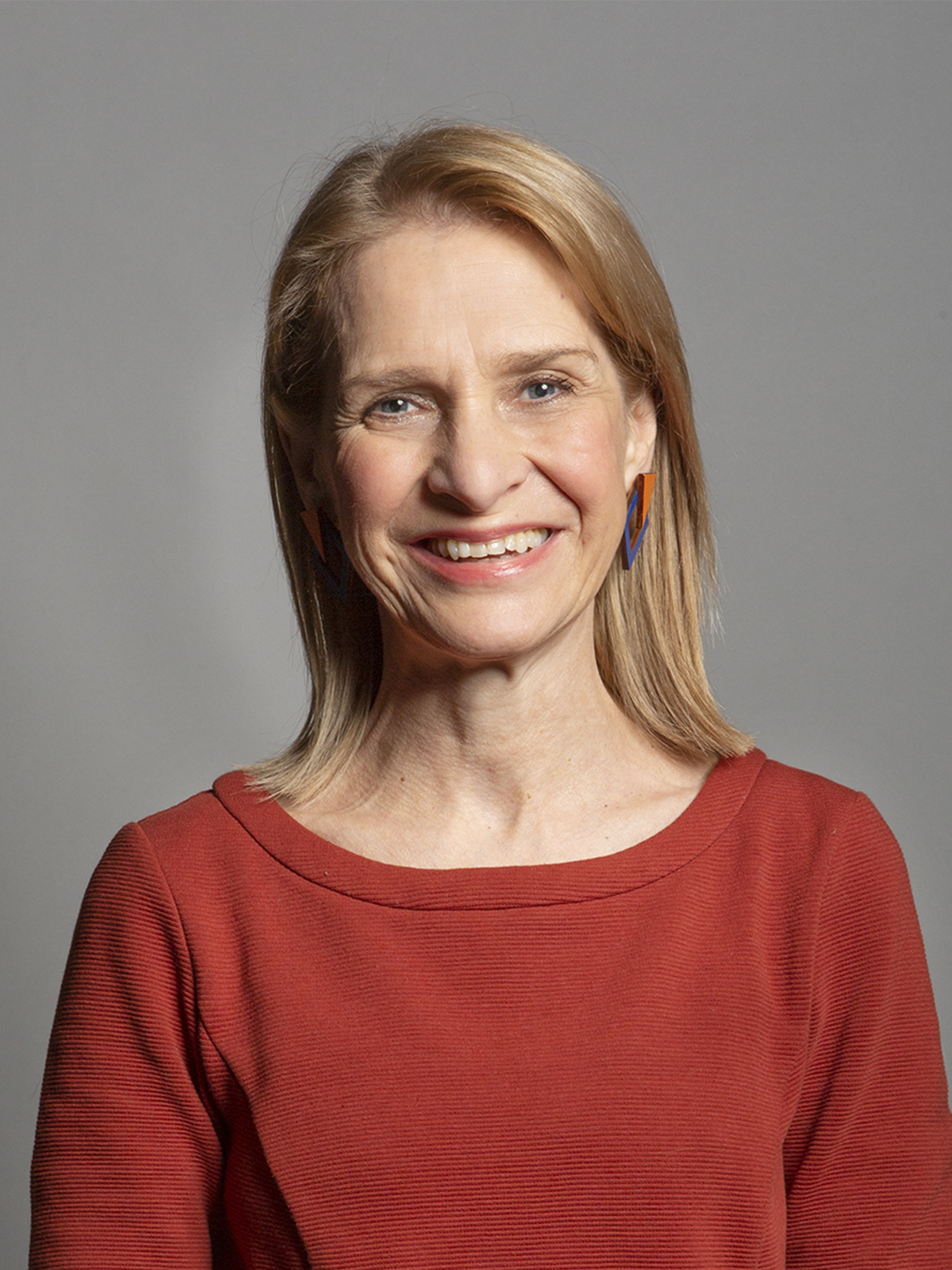 Official portrait of Wera Hobhouse MP 3×4 portrait of Wera Hobhouse